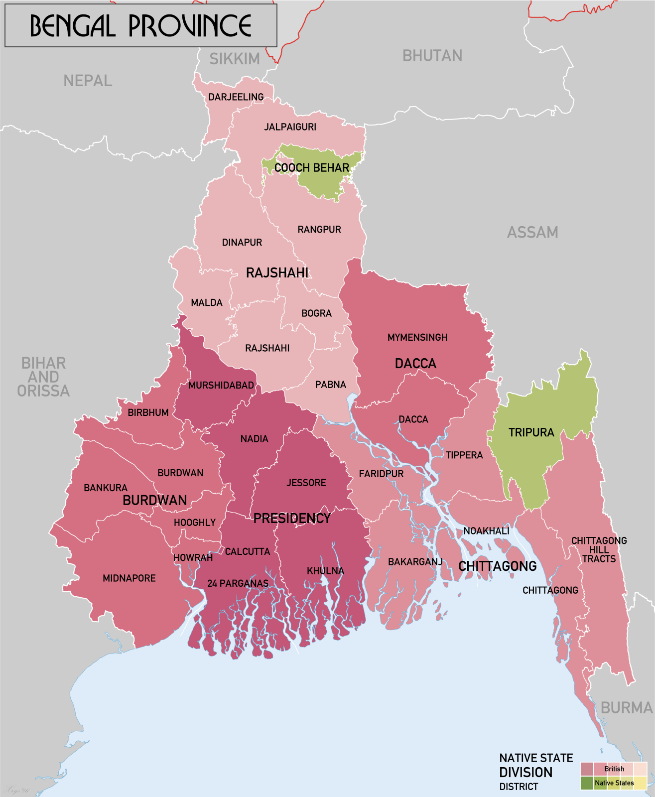 Administrative map of British India's Bengal Province in 1931. Source data: Survey of India 1:253k (Perry-Castenada Map Library, Univ of Texas), India 1:1M, Imperial Gazetteer of India 1:4M (Digital South Asia Library, Univ of Chicago).